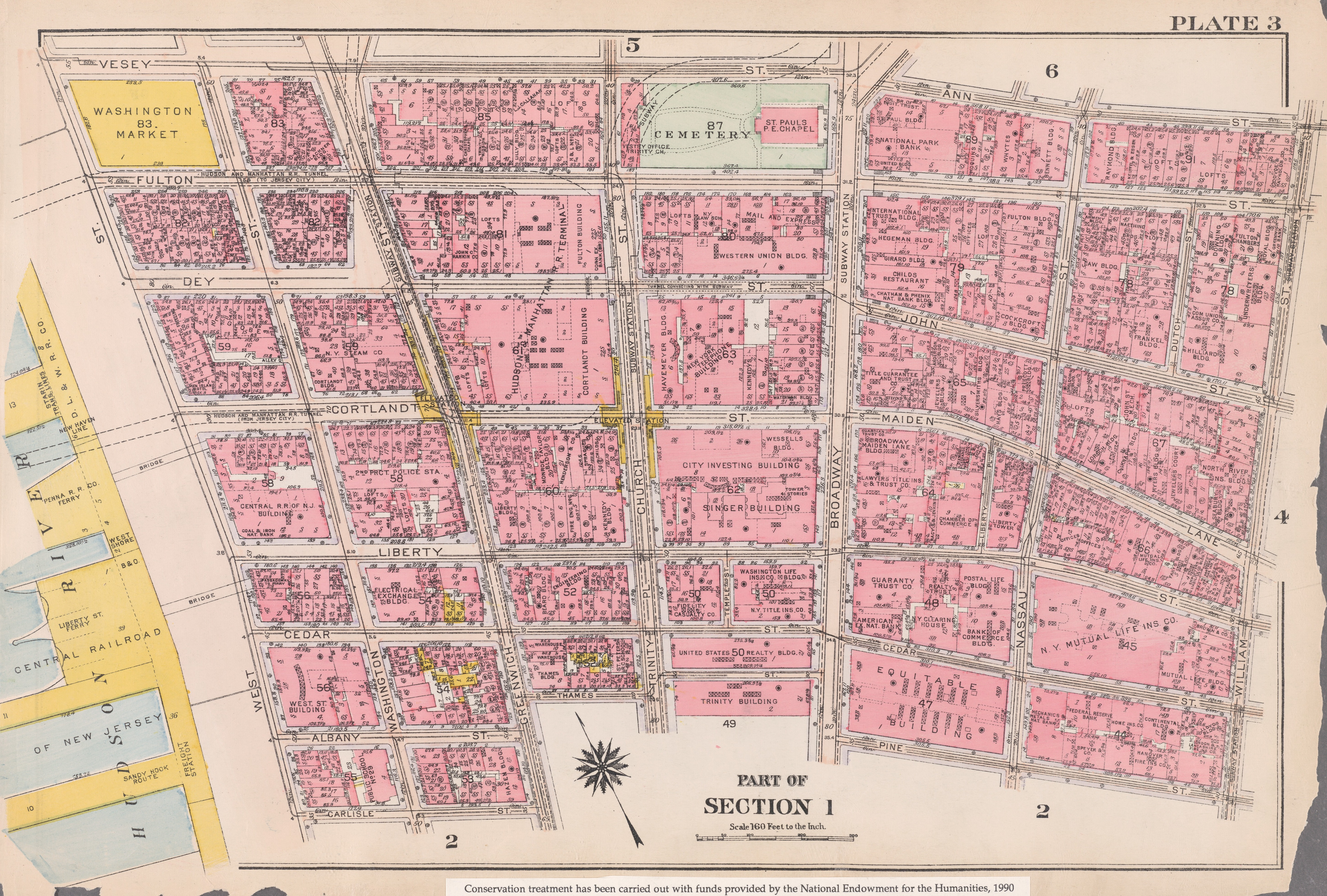 Plate 3 from: Bromley, George W. and Walter S. Atlas of the Borough of Manhattan City of New York. Desk and library edition. (New York: G. W. Bromley and Co., 1916) FOR KEY TO MAP SYMBOLS, CLICK HERE.